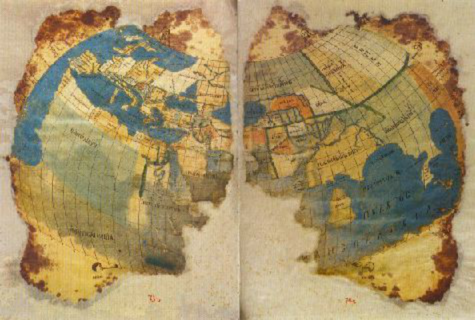 A damaged Greek map of the inhabited world along the lines of Ptolemy's 2nd projection.